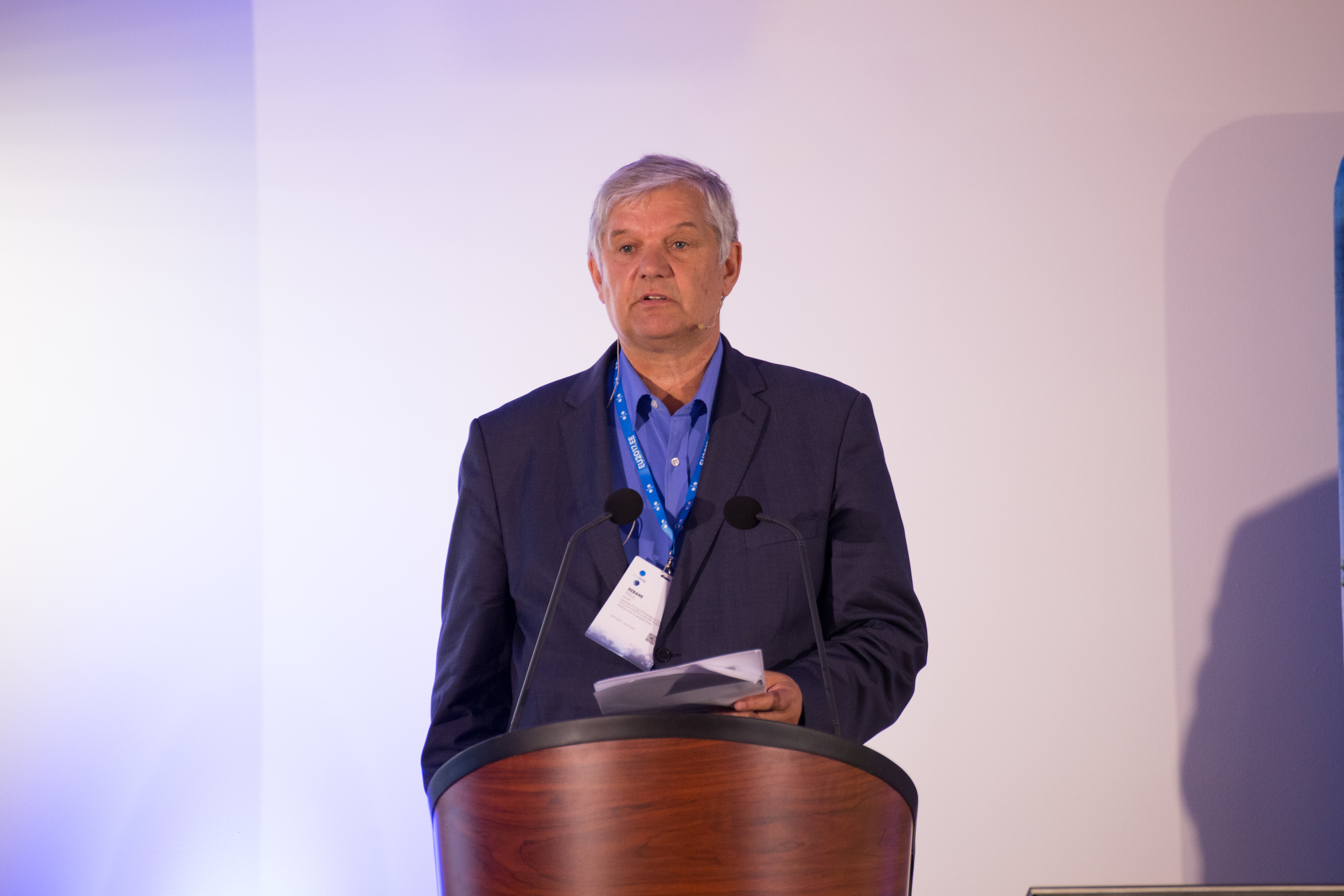 Raul Rebane, Estonian communication consultant. Conference 'Role of sport coaches in society. Adding value to people's lives'